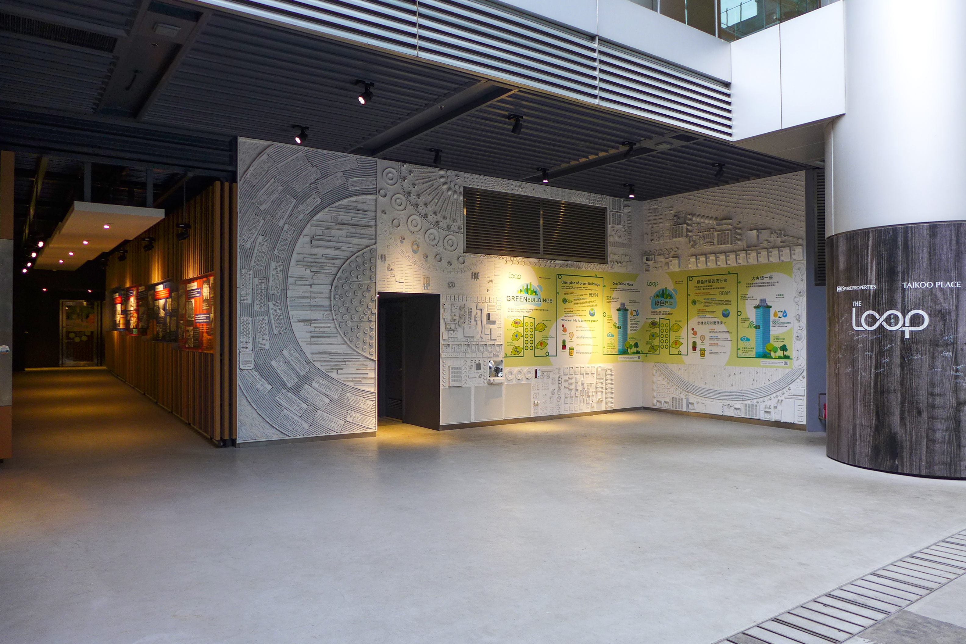 The Loop, Taikoo Place